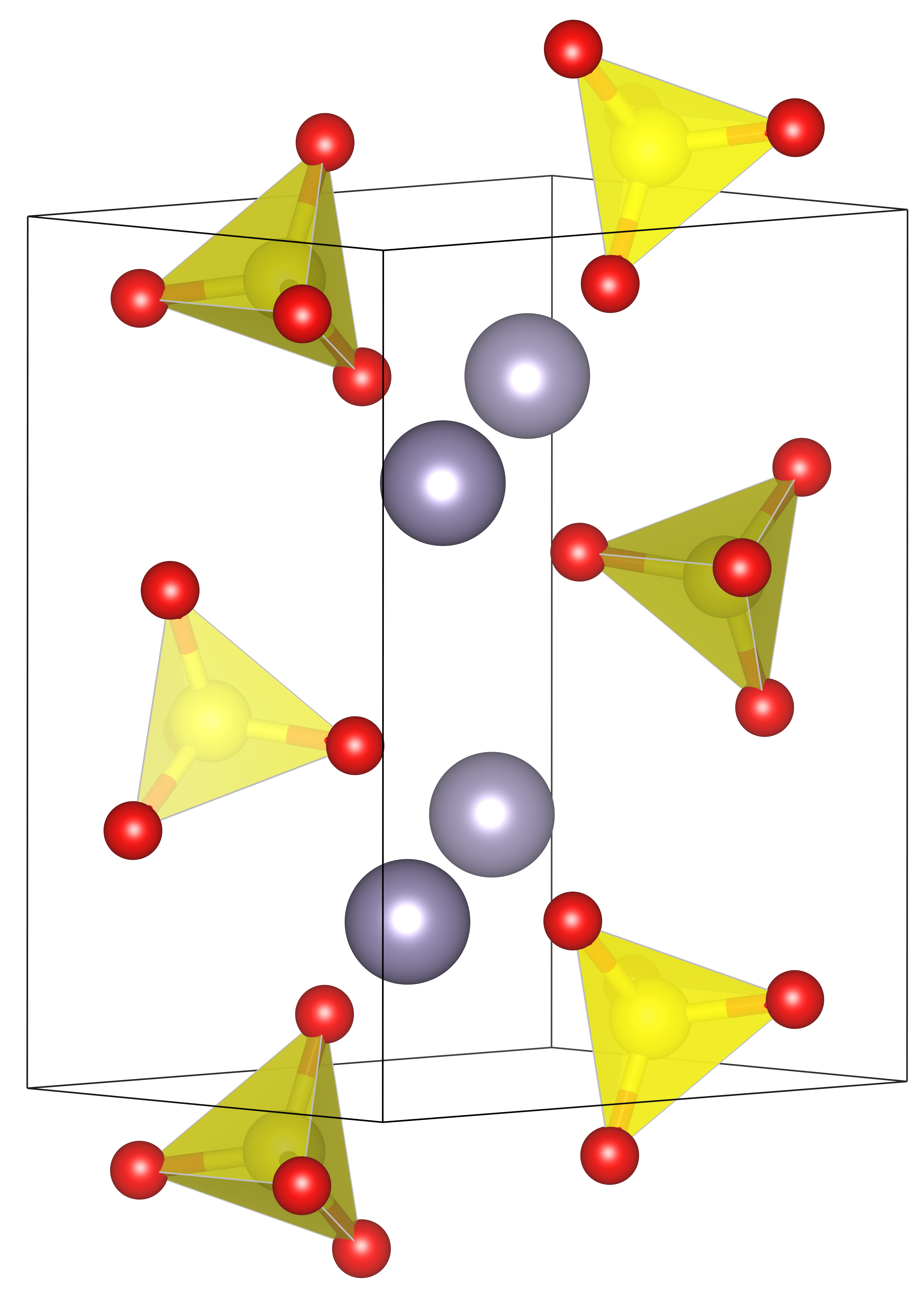 Unit cell of tin(II) sulfate (SnSO4). Created with VESTA. Source of crystal structure: According to the paper the structure represents a heavily distorted BaSO4 structure.